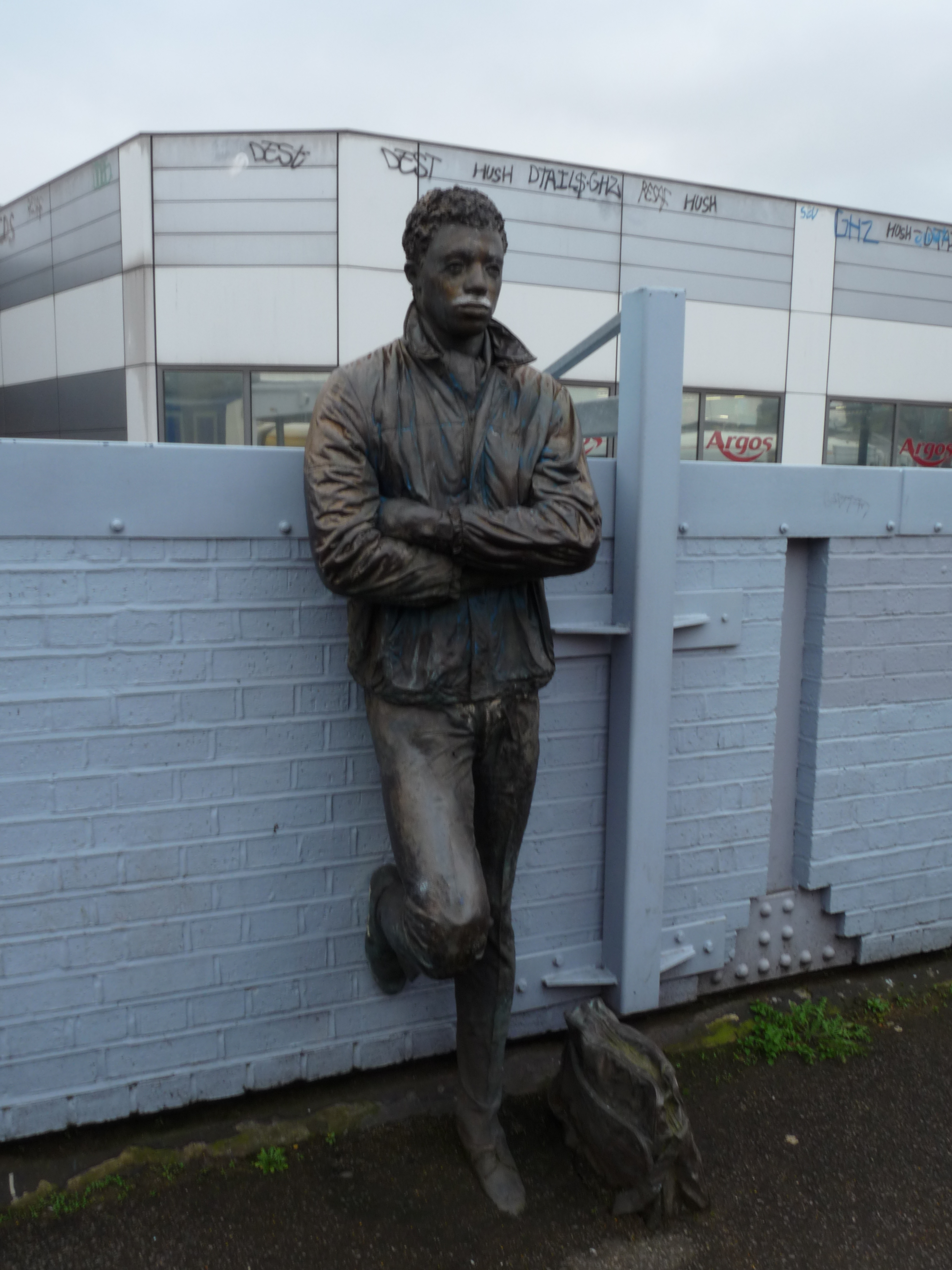 The male statue on Brixton railway station, part of Platforms Piece by Kevin Atherton